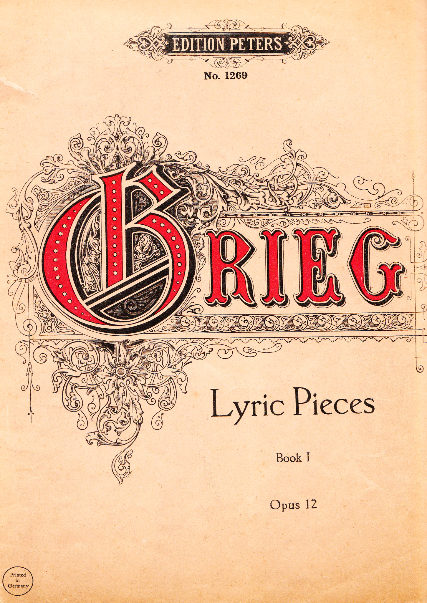 Edvard Grieg - Lyrics Pieces Opus 12 Book 1